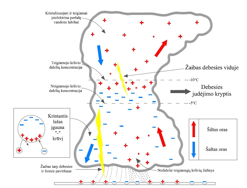 Distribution of Charged participles and vertical air flows in storm clouds